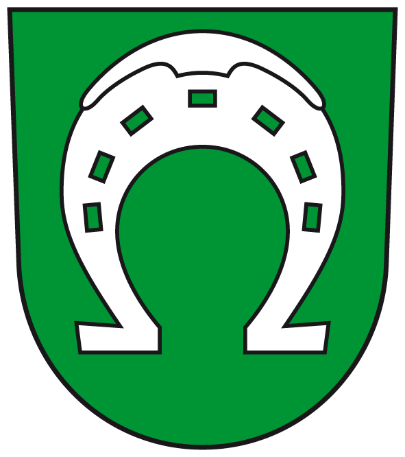 Coat of arms of Hambach, Part of Neustadt an der Weinstraße